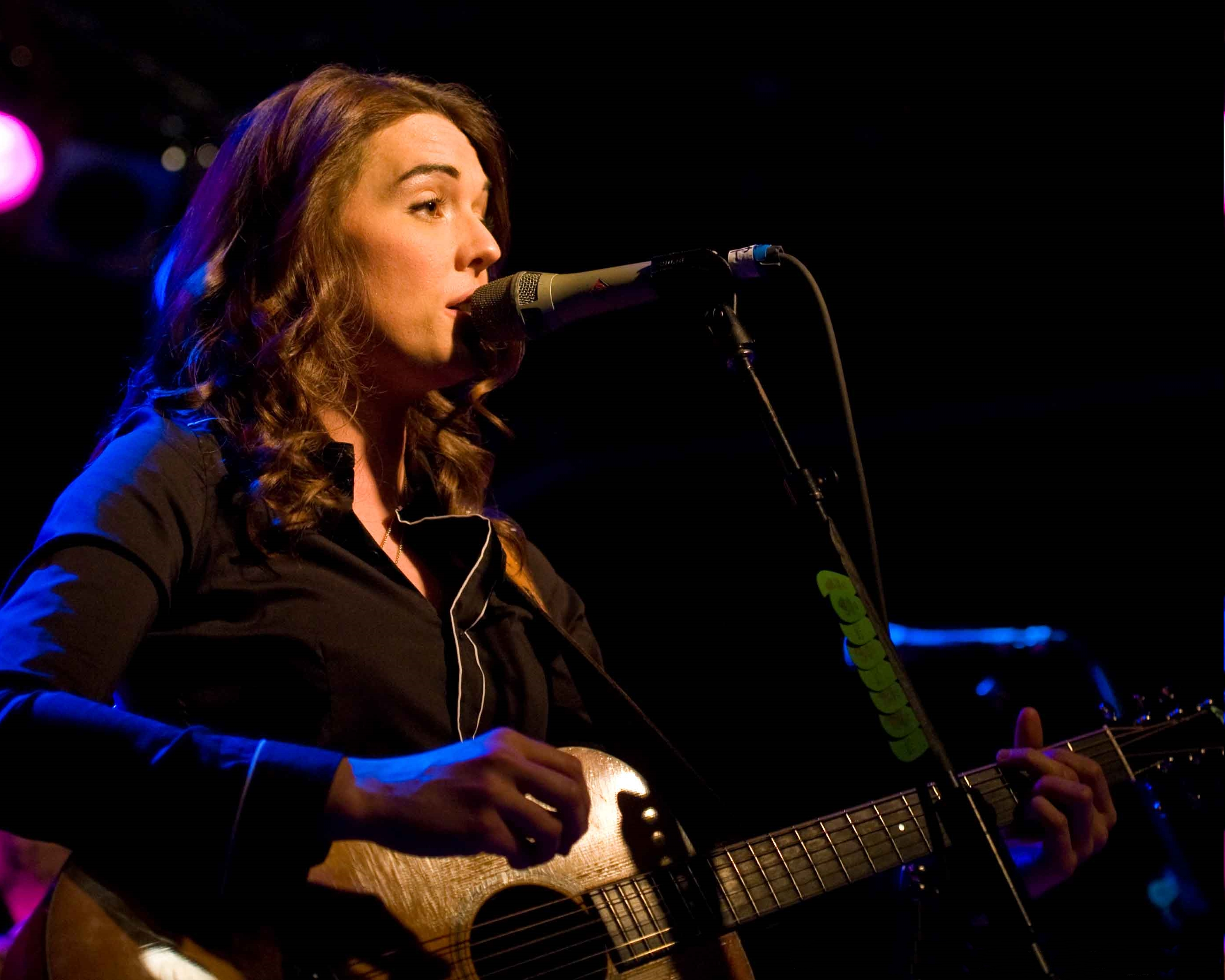 Brandi Carlile @ Neumos, Seattle 11-20-10